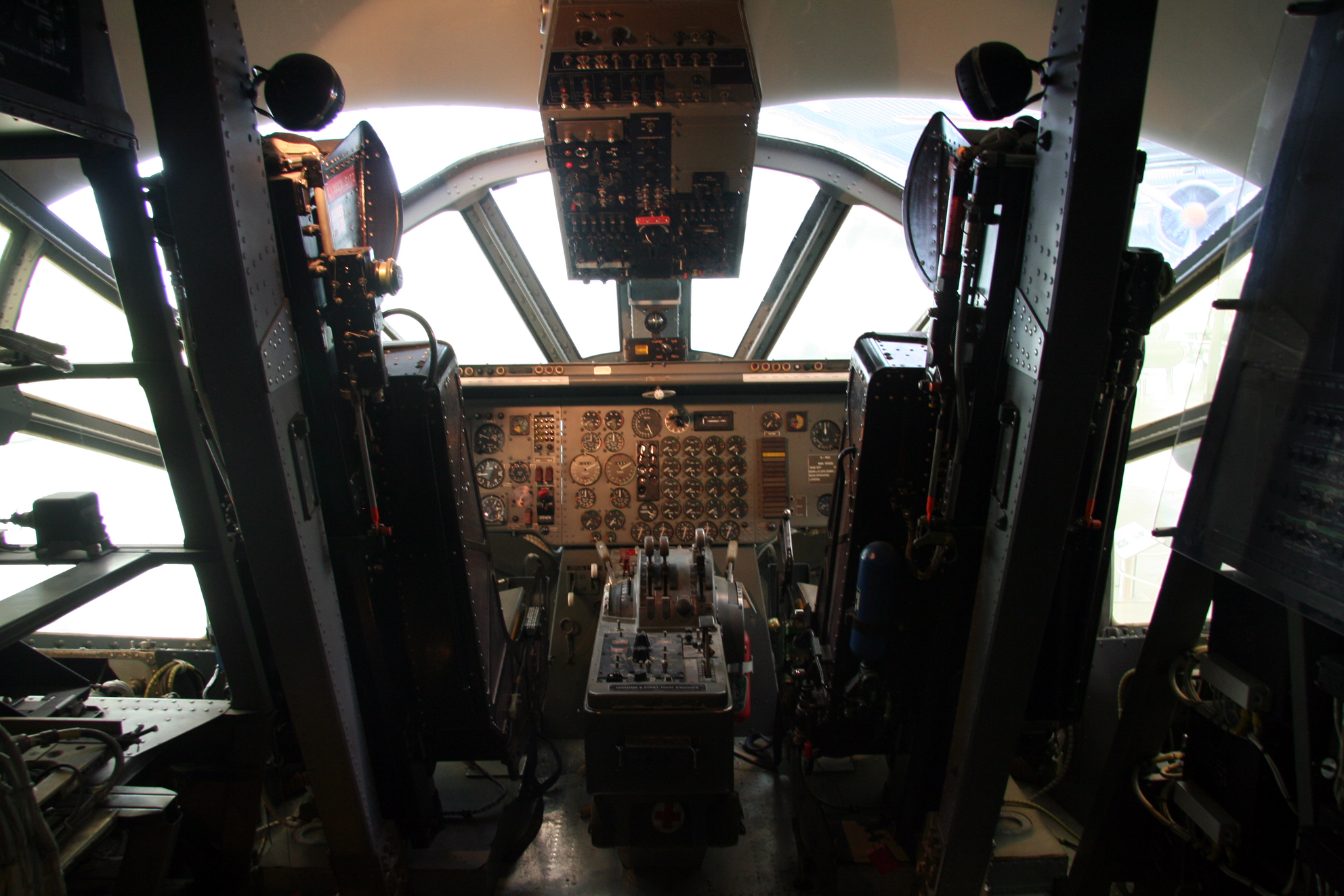 Cockpit of the Dornier Do 31 E-3 (1967), exhibit at Flugwerft Oberschleißheim, Germany